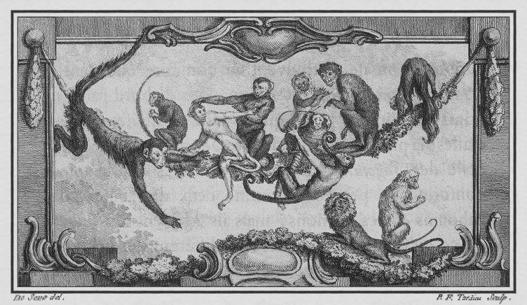 Les Primates II (Sapajous et Sagouins) - Primates and Apes 2 (Capuchin and Tamarin Monkey) Image from the French book: Illustrations de Histoire naturelle générale et particulière avec la Description du Cabinet du Roy Tome XV (Volume 15), Page de Garde (Page 1) - Publisher: Imprimerie royale, Paris (retouched version: removed spots; restored historic black framing; cropping to mod-8 sizes)